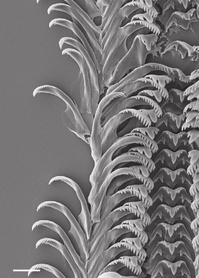 Radula of Marstonia comalensis, USNM 874926. A Portion of radular ribbon. Scale bar is 20 μm.